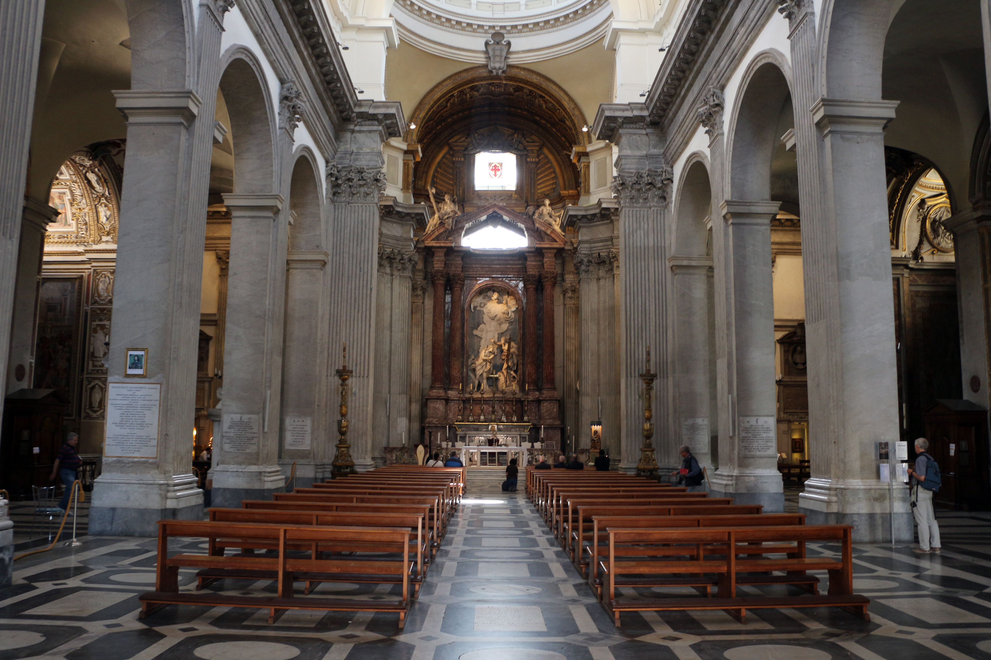 San Giovanni dei Fiorentini (Rome) - Interior